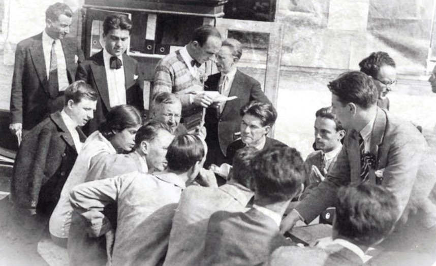 Team leaders of the Bucharest Sociological School, on a field trip to Drăguș. Traian Herseni is seated in the middle, second, row, facing the viewer; to his right, at the head of the table, Dimitrie Gusti. Henri H. Stahl is seated across from Herseni, facing right (face partly obscured); Xenia Costa-Foru is seated on his and Gusti's left.